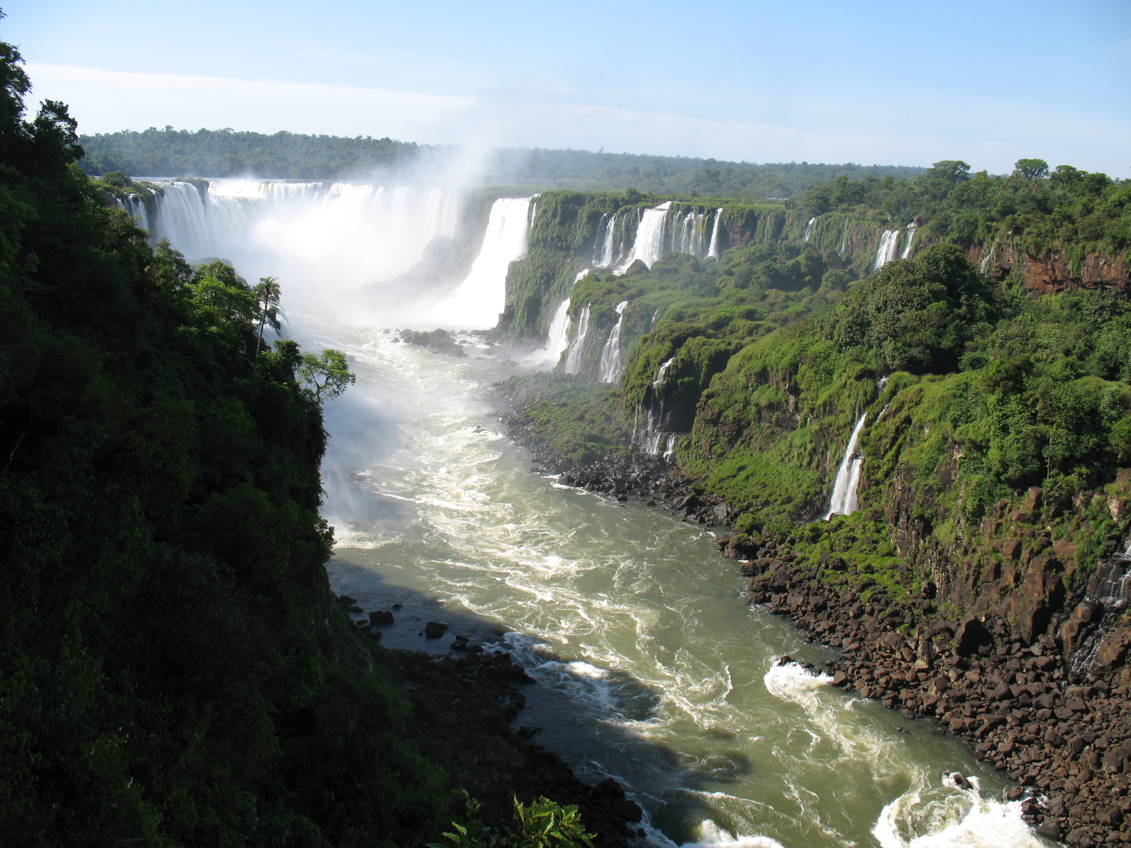 Iguazu Falls, view from the Brazilian side: Devil's Throat